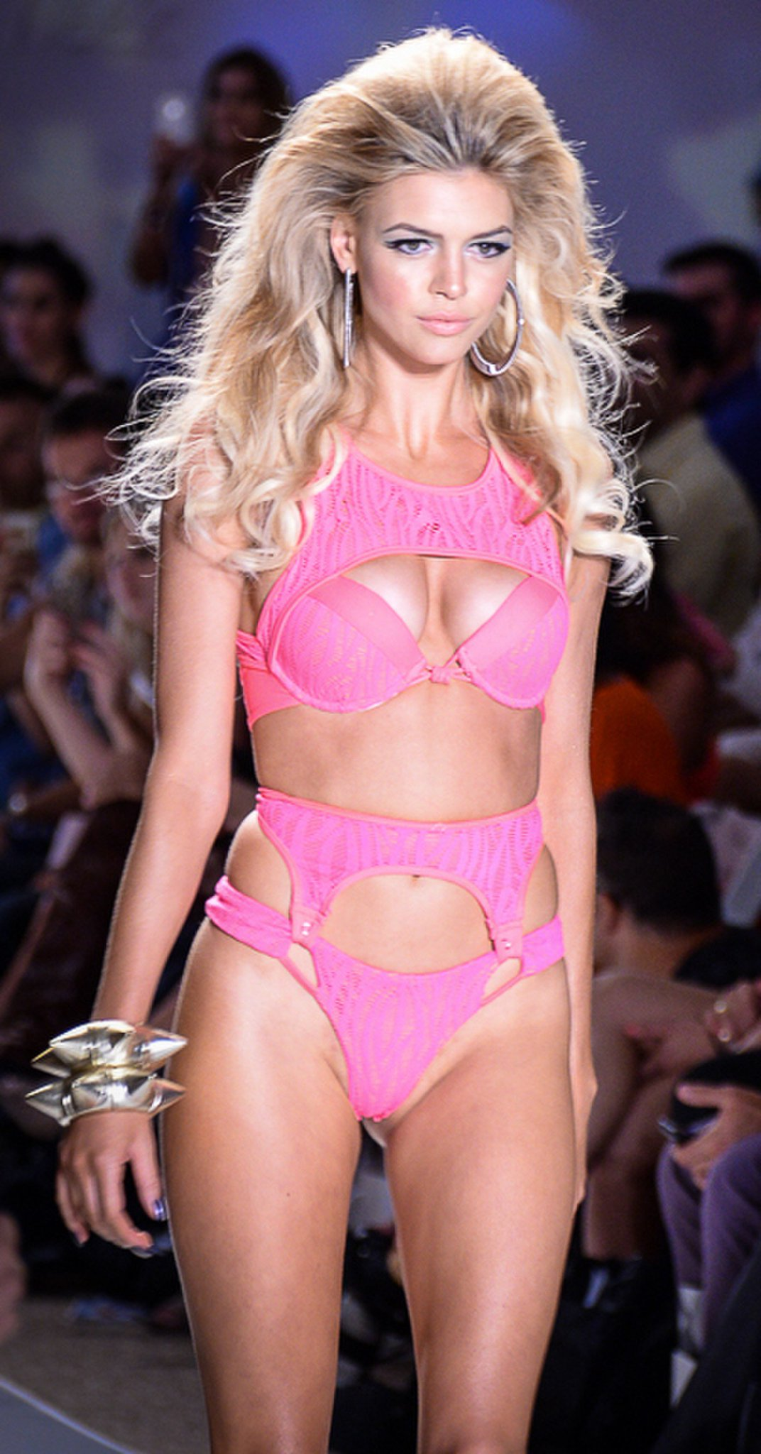 Kelly Rohrbach walking in a show for Beach Bunny Swimwear at Mercedes-Benz Fashion Week.